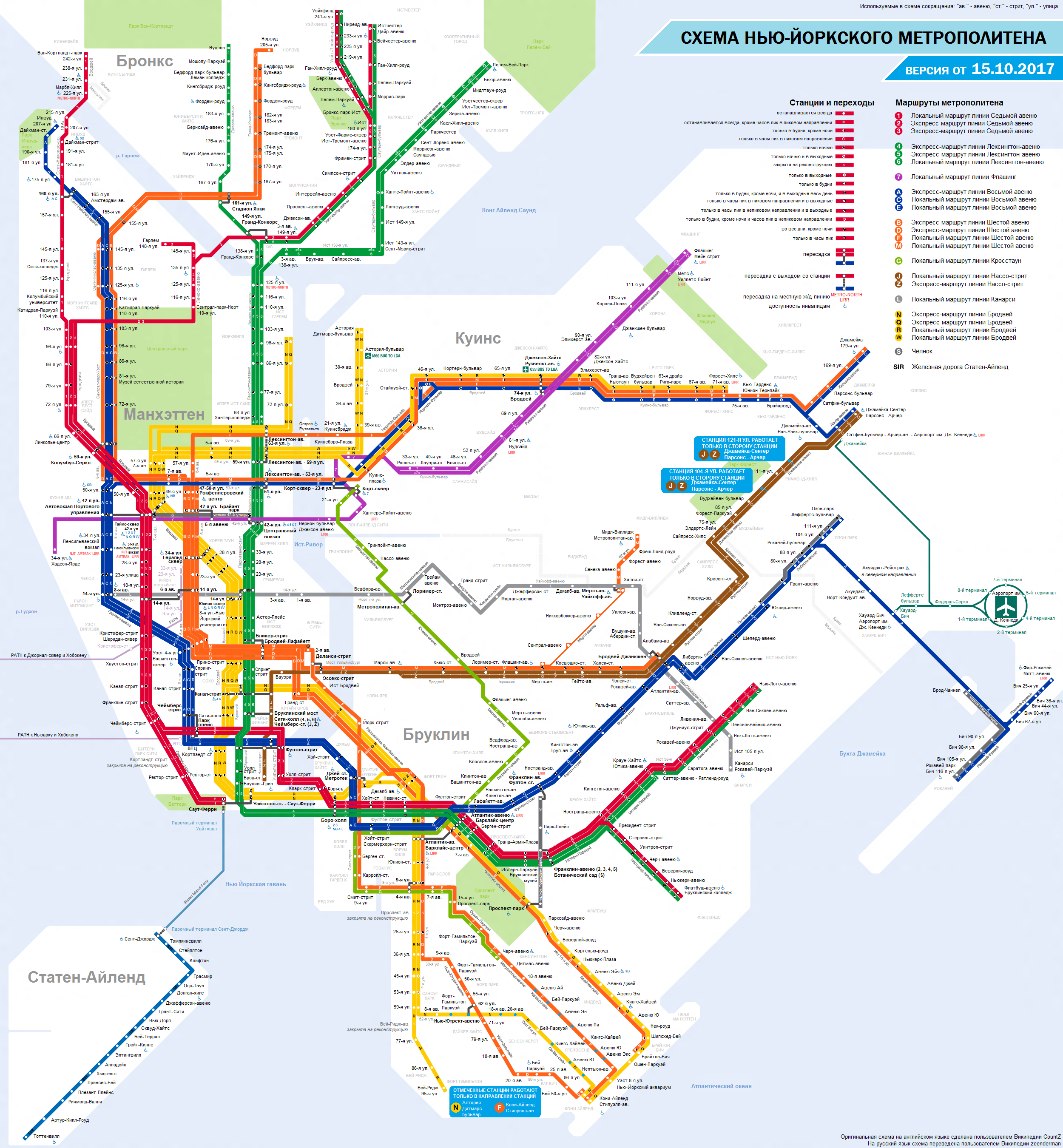 New York City Subway map in Russian